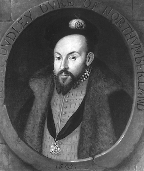 John Dudley, 1st Duke of Northumberland (1504–1553). English general and statesman. Portrait at Penshurst, Kent, United Kingdom. Not the same artist as similar version at Knole, Kent. (see: Jordan, W.K.; M.R. Gleason: The Saying of John Late Duke of Northumberland Upon the Scaffold, 1553 Harvard Library 1975, pp. 71–72)